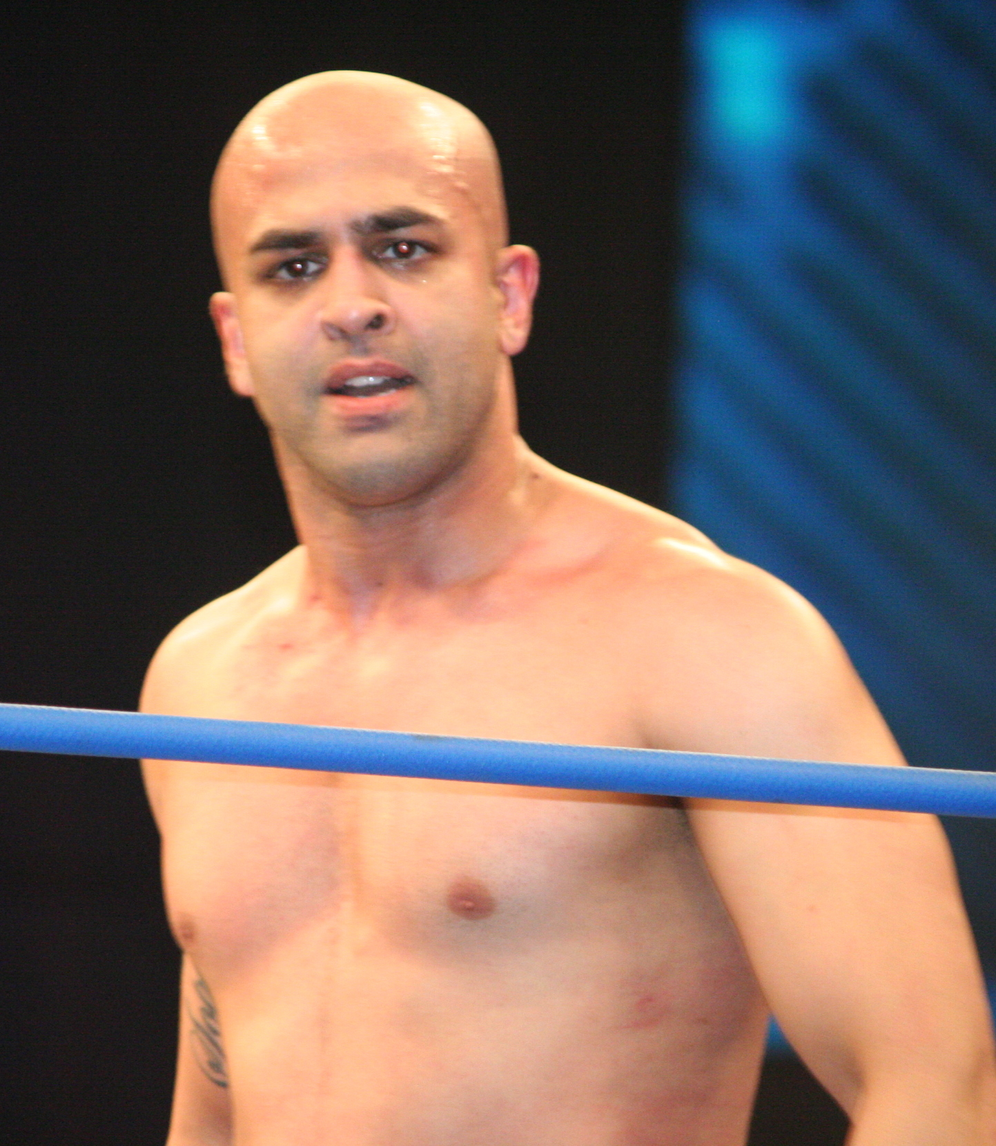 Professional wrestler Sonjay Dutt in July 2017